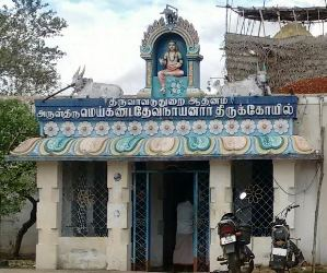 Tiruvennainallurmeikandavanayanartemple திருவெண்ணெய்நல்லூர்மெய்கண்டதேவநாயனார் கோயில்